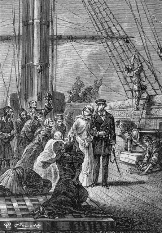 An illustration from Jules Verne's novel "The Archipelago on Fire" drawn by Léon Benett.